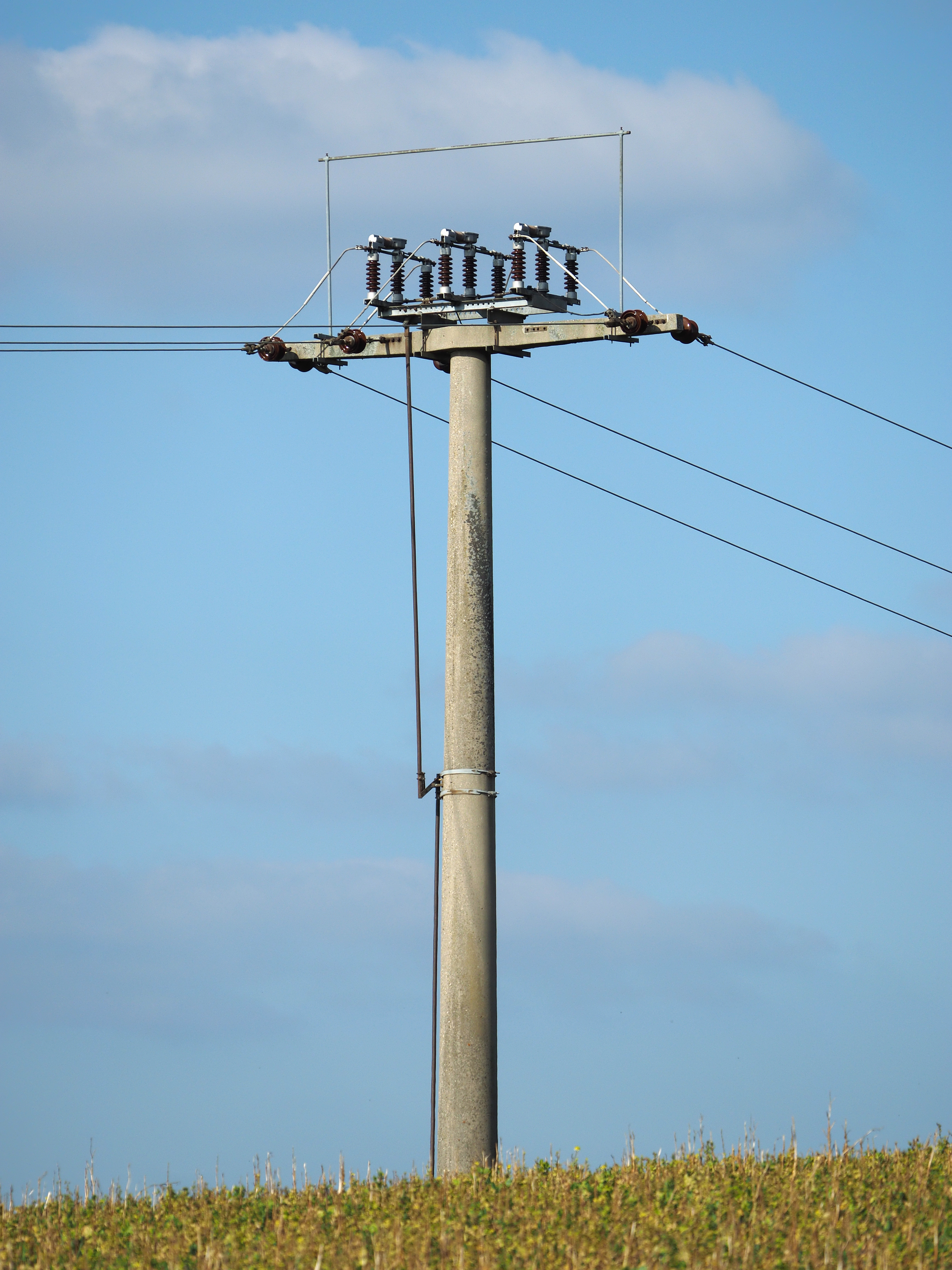 Medium voltage power pole with rod-operated switchgear; Germany